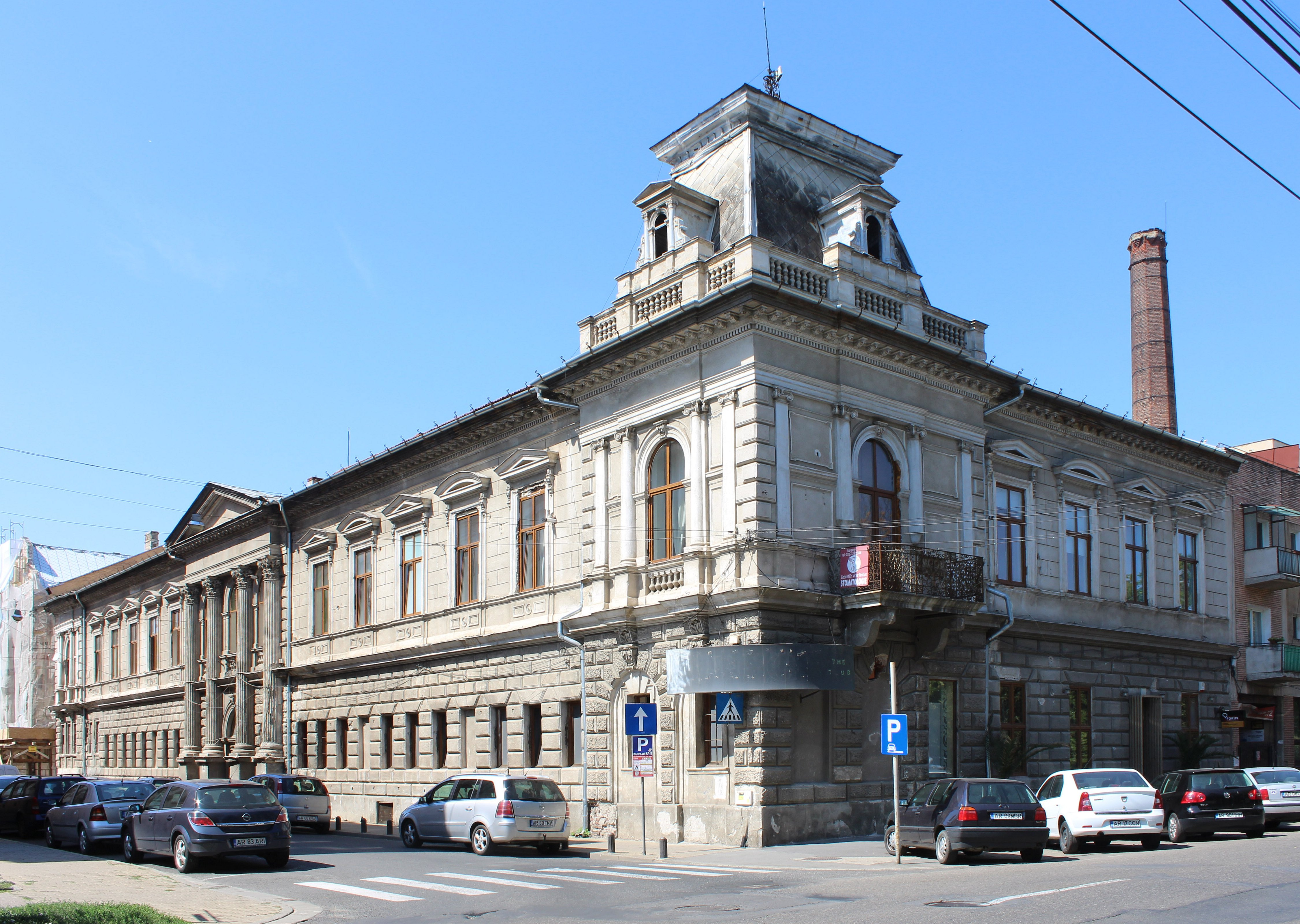 House, Unirii str, no 17, Arad, Romania, built 1890